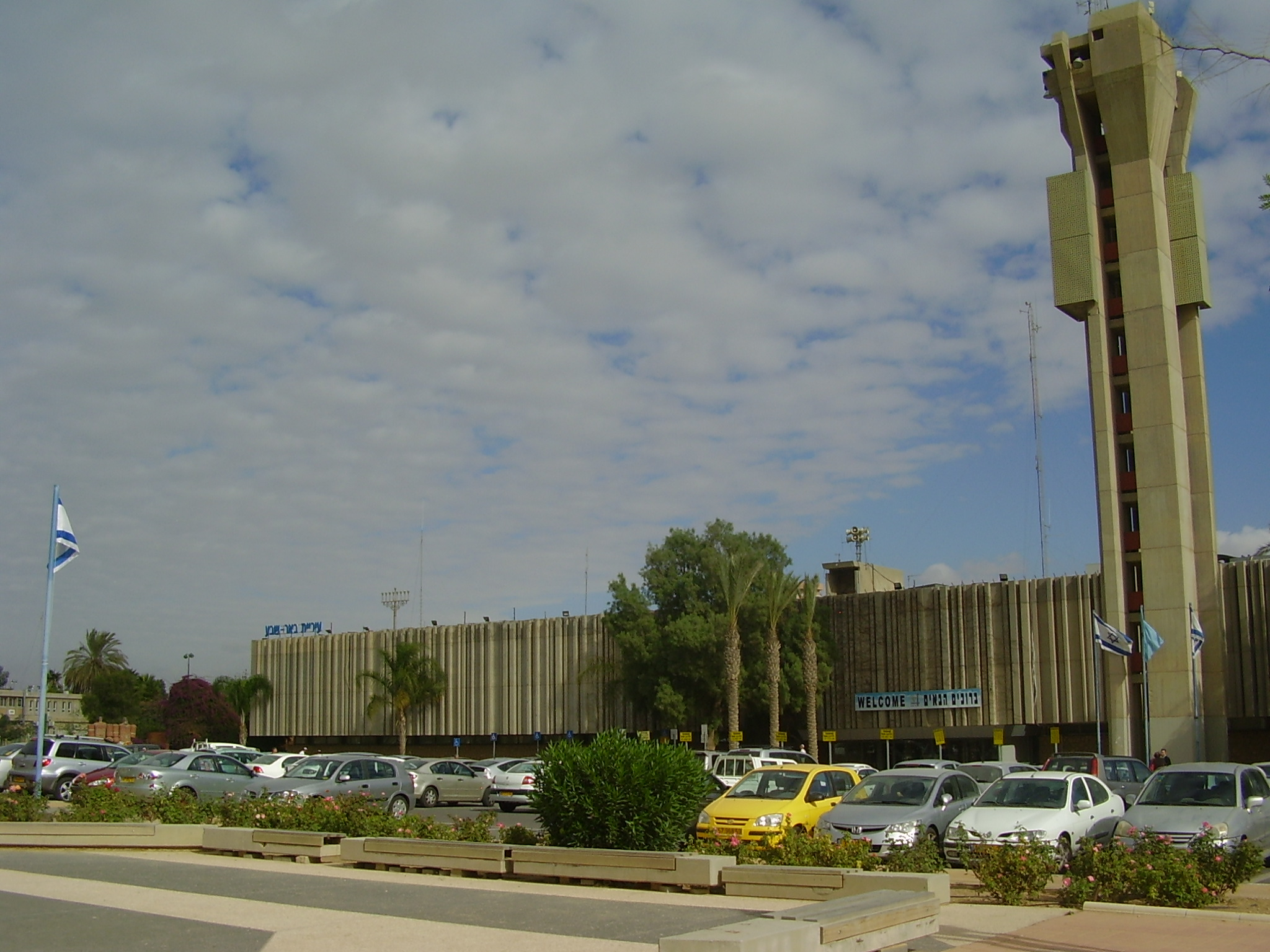 be\'er sheva municipality